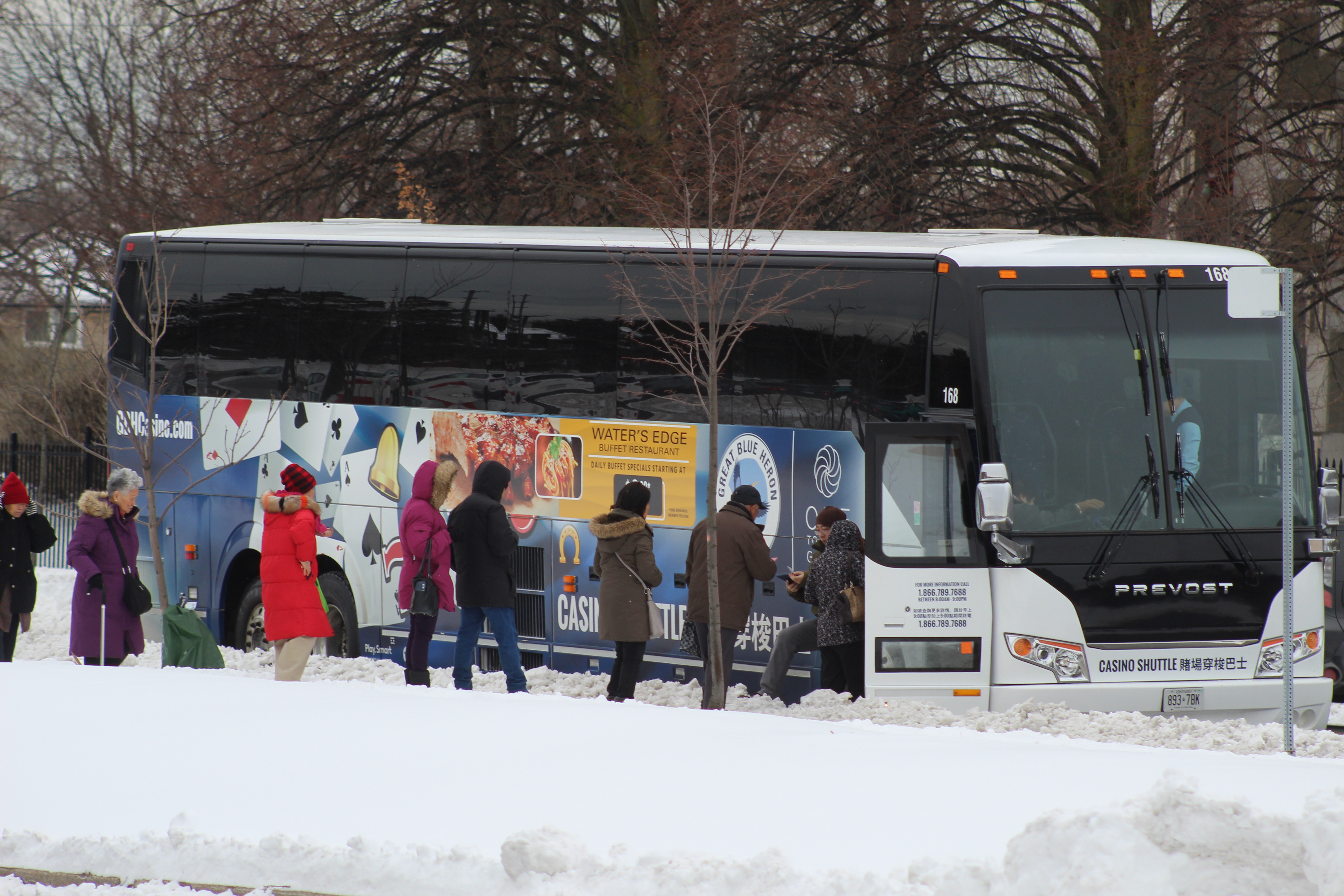 People getting on a bus to go to a casino on 21 January 2020 at Woodside Square.